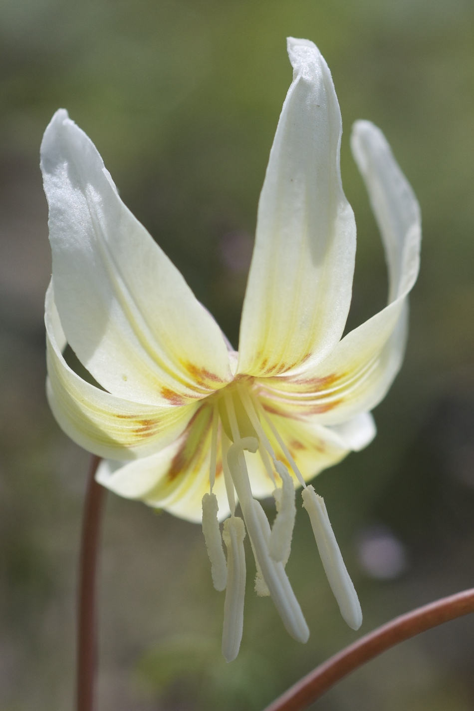 Species from California Common name: California fawn lily, California fawnlily Photographed in the Mendocino National Forest, Mendocino County, California